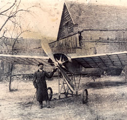 First Georgian aviator Besarion Keburia